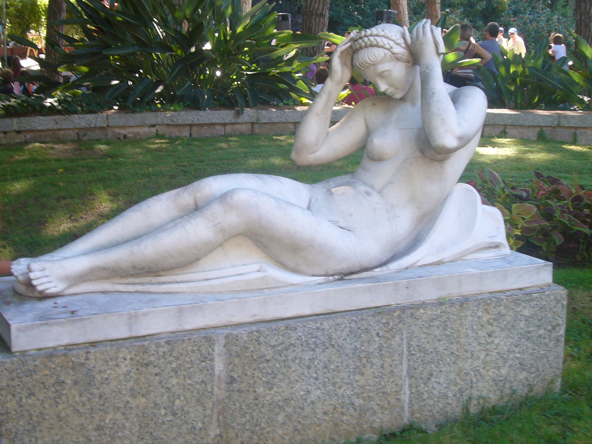 Sculptures in gardens of Palauet Albéniz, Barcelona. "Dona ajaguda". Sculptor: Enric Monjo (1970)